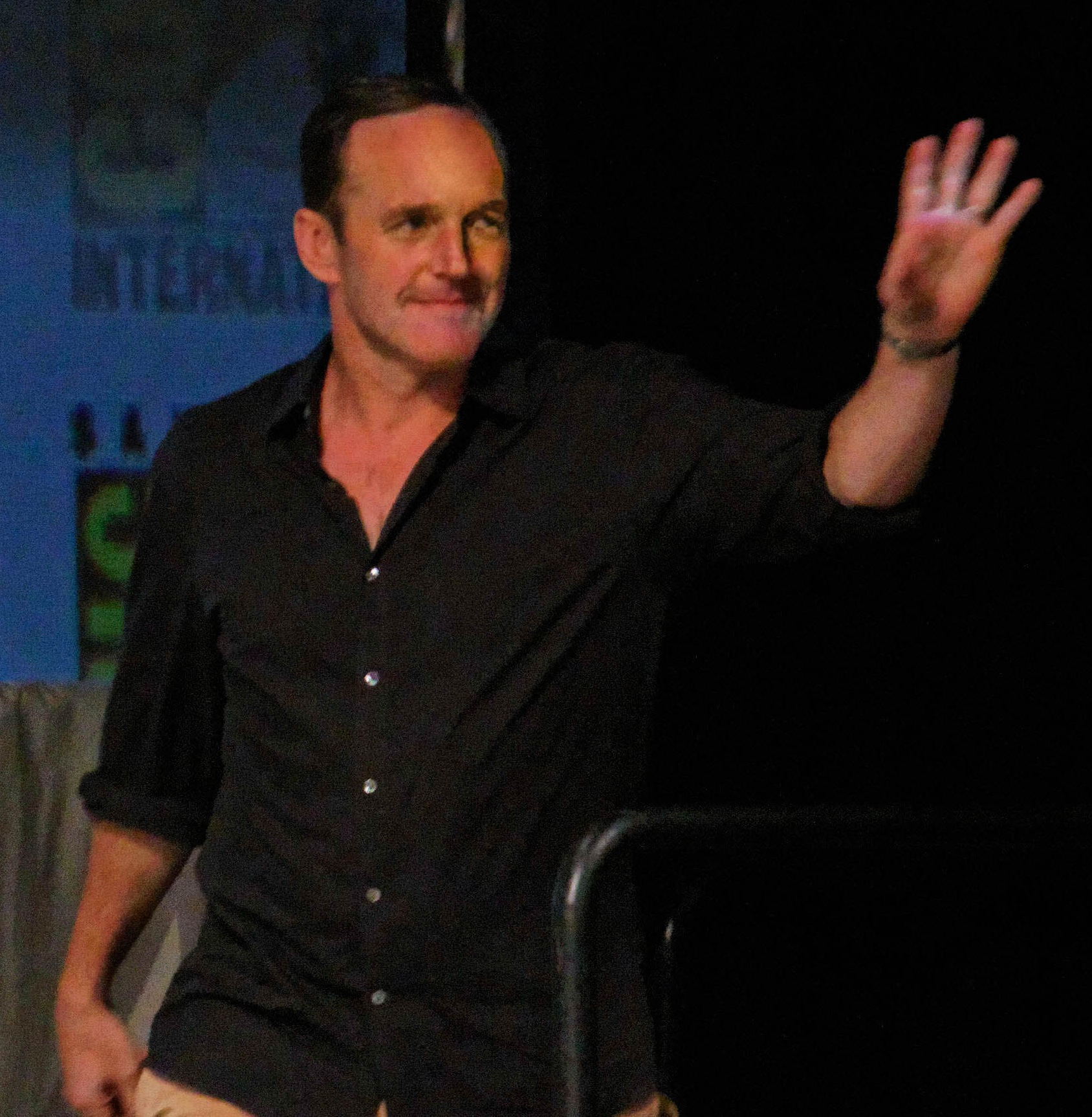 Clark Gregg at the 2010 San Diego Comic-Con International.